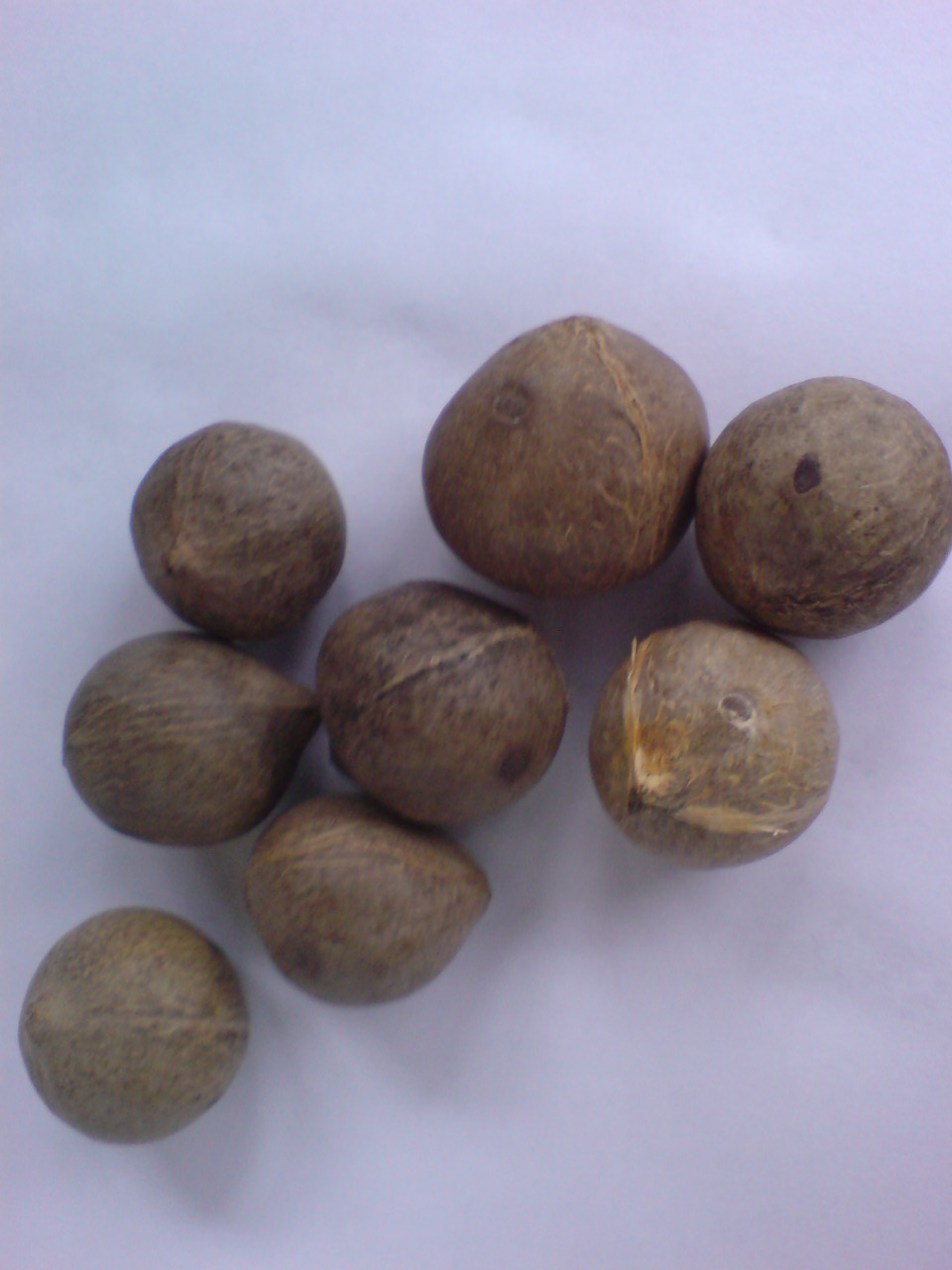 Seeds of the fruit of the Chilean Wine Palm.